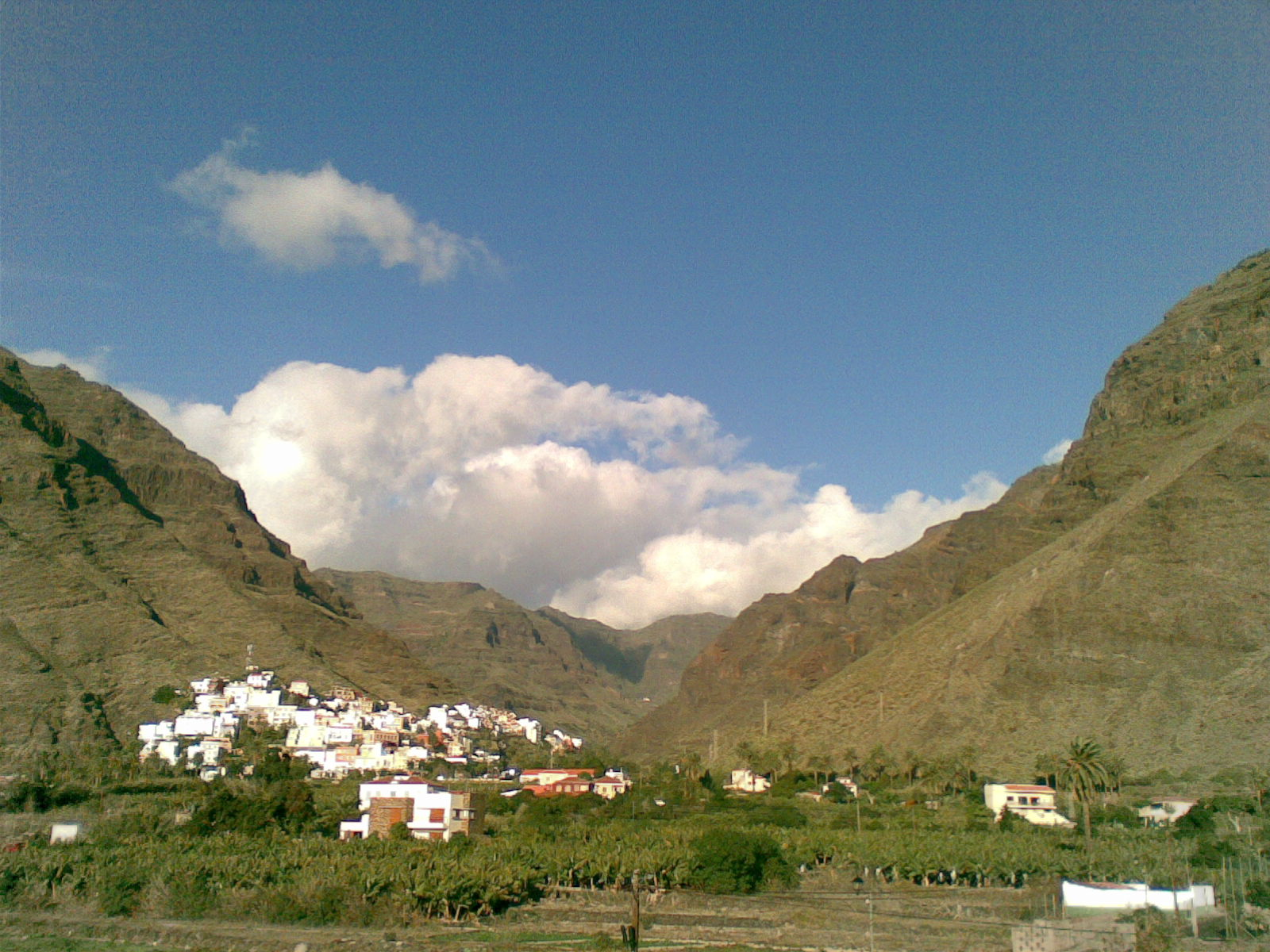 Looking into the mouth of the Valle Gran Rey, from our hotel balcony at the Hotel Gran Rey, in La Gomera.